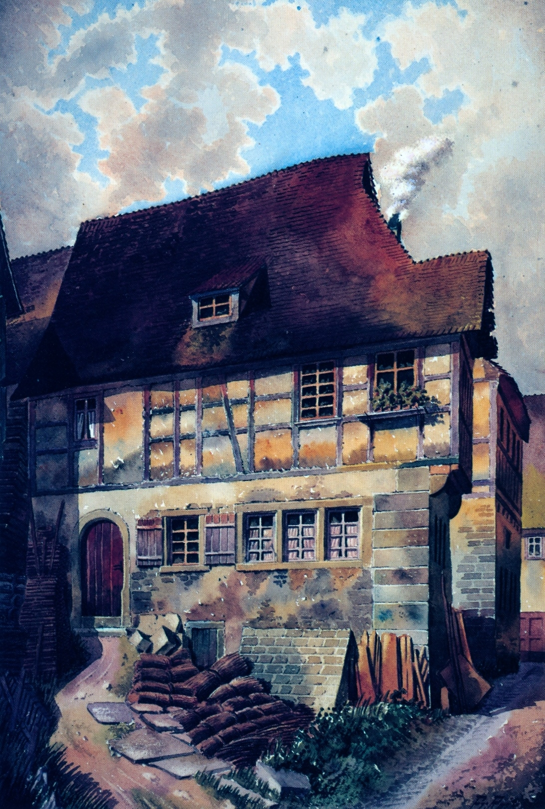 siehe oben